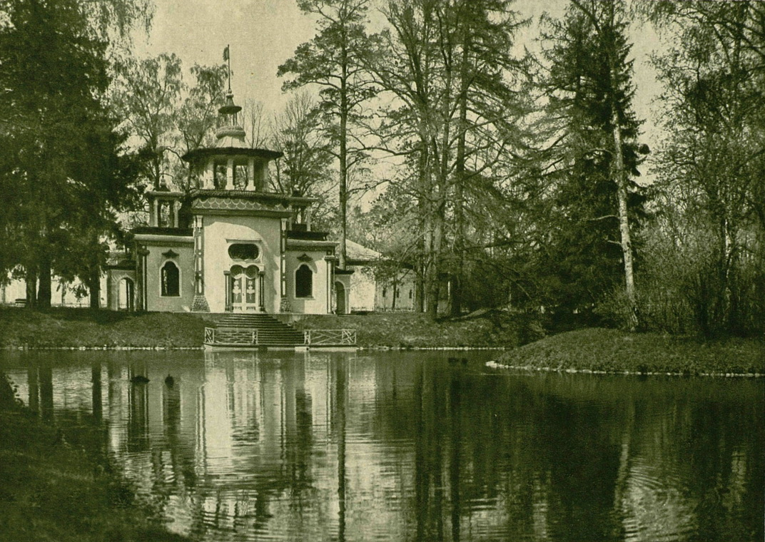 Tsarskoye Selo (Russia), Chinese gazebo in the Catherine Park.